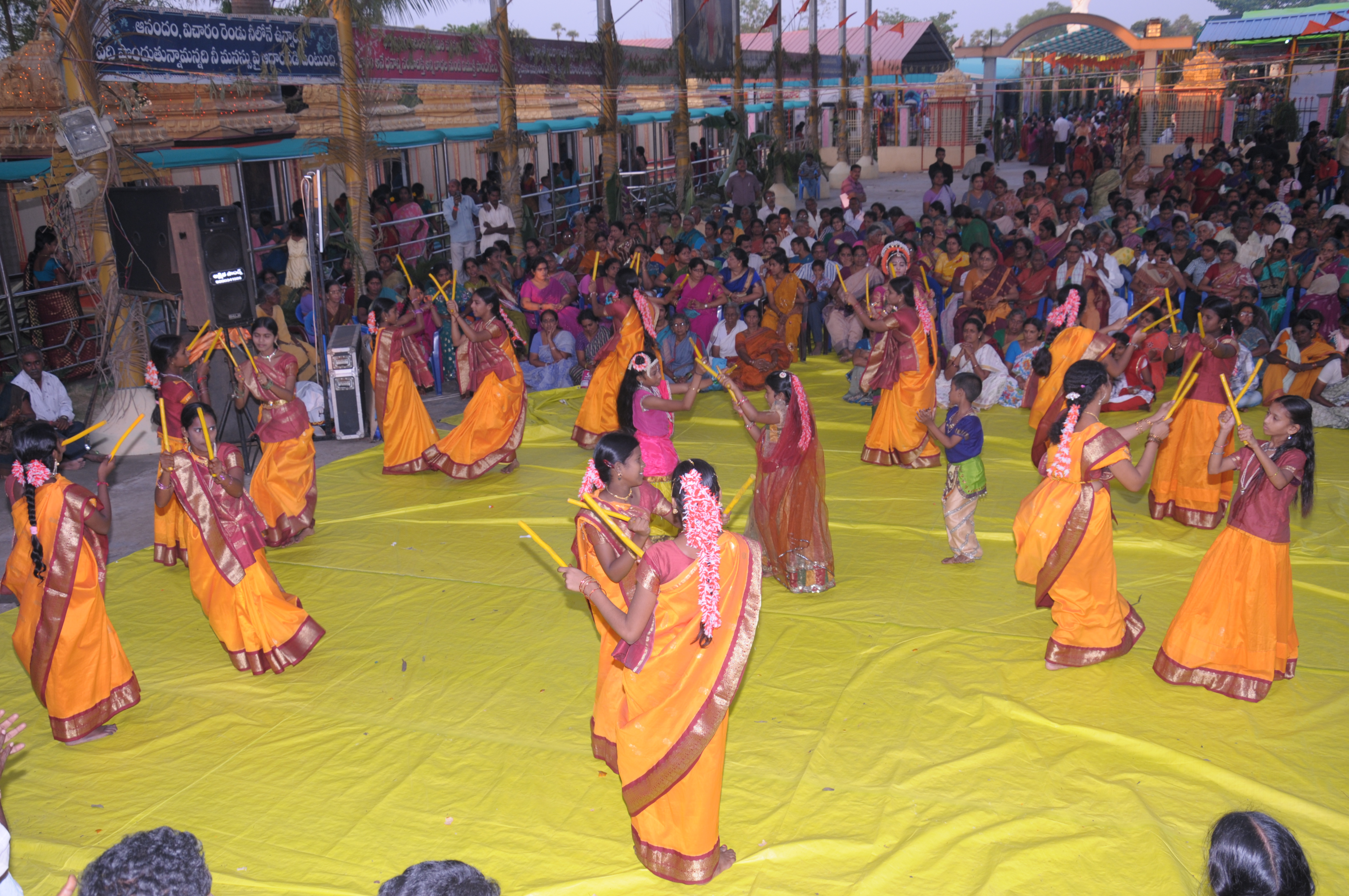 kolata bhajana at ahoratram